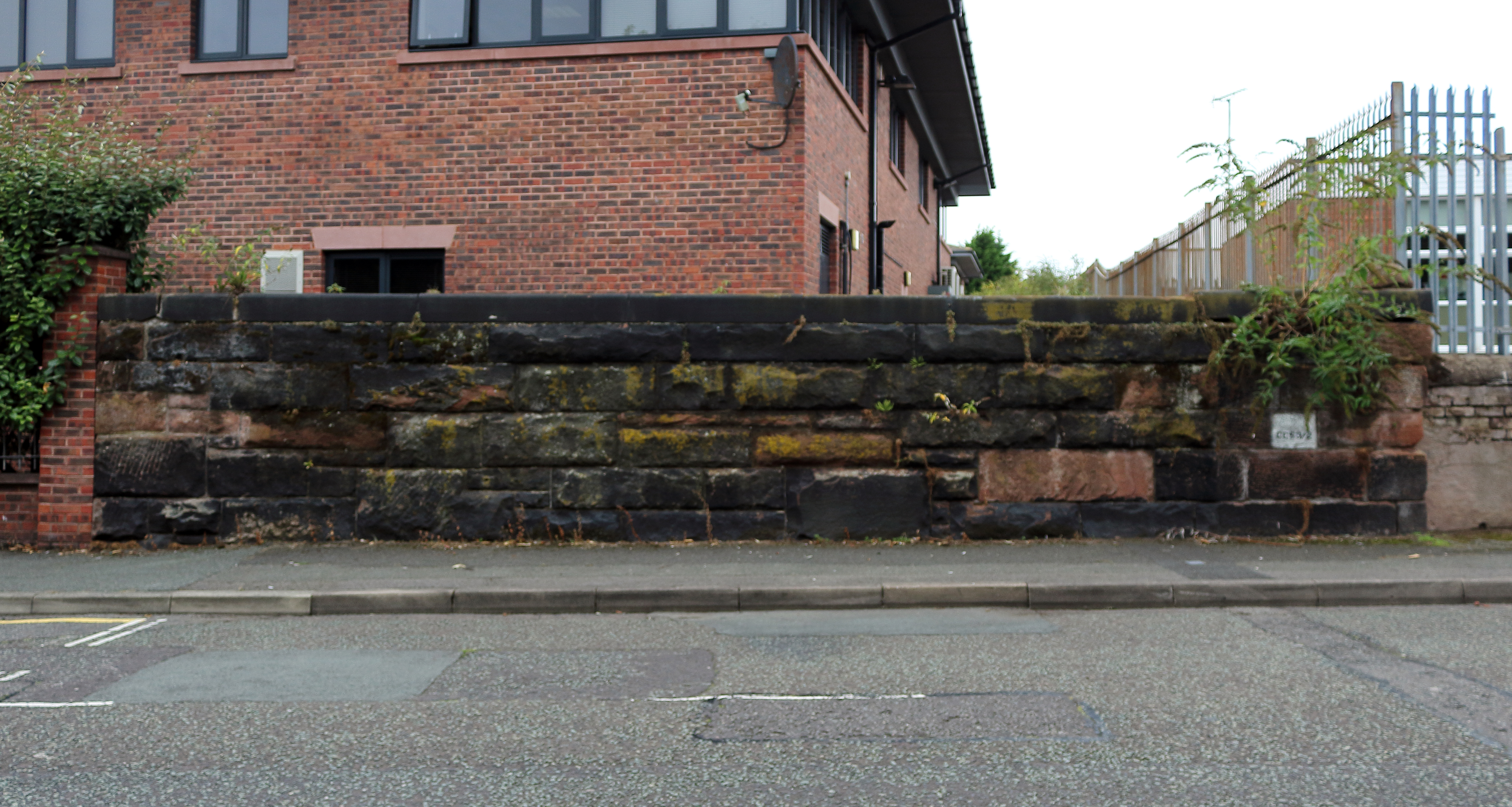 This was the western parapet of the bridge carrying Church Street over lines into Monks Ferry railway sttation on the Chester & Birkenhead Railway. It appears to the only piece of infracstructure associated with the station still standing.